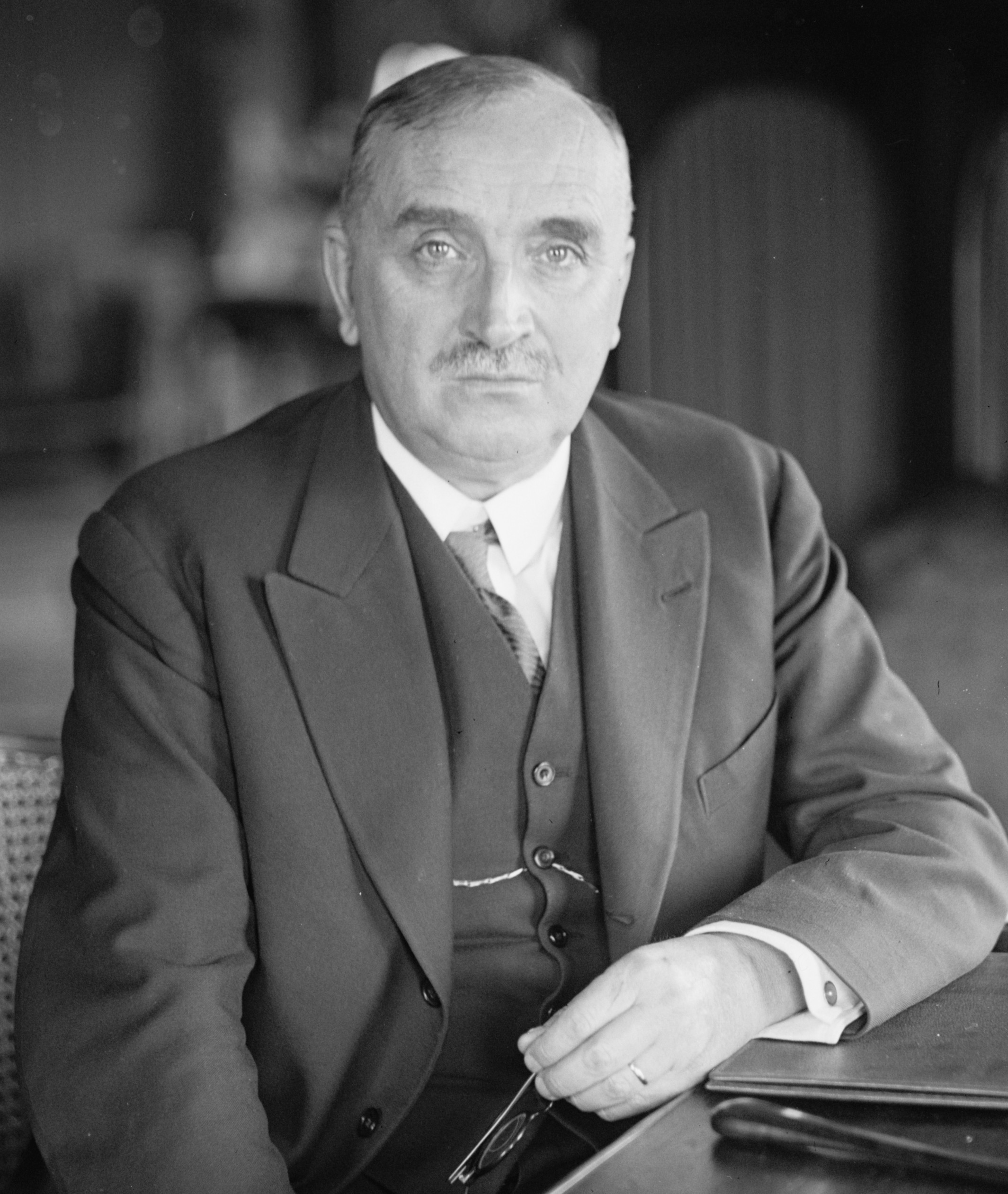 French poet, playwright and diplomat Paul Claudel (1868-1955)